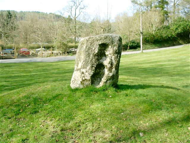 Carreg Pumsaint This standing stone is near the entrance to Dolaucothi gold mine. There is a legend of five travelling saints who rested against this stone and were frozen in place. Merlin freed them but their impressions were left in the stone. The nearby village is called Pumsaint - meaning five saints. The only problem is that examining the stone reveals only four indentations. Archaeologists suggest that the indentations were made on the stone because it was used for grinding ore during the Roman gold mining operations.